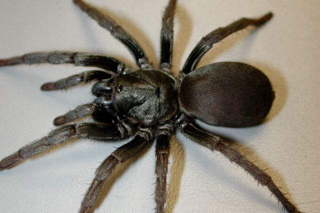 Calisoga sp. in northern California.